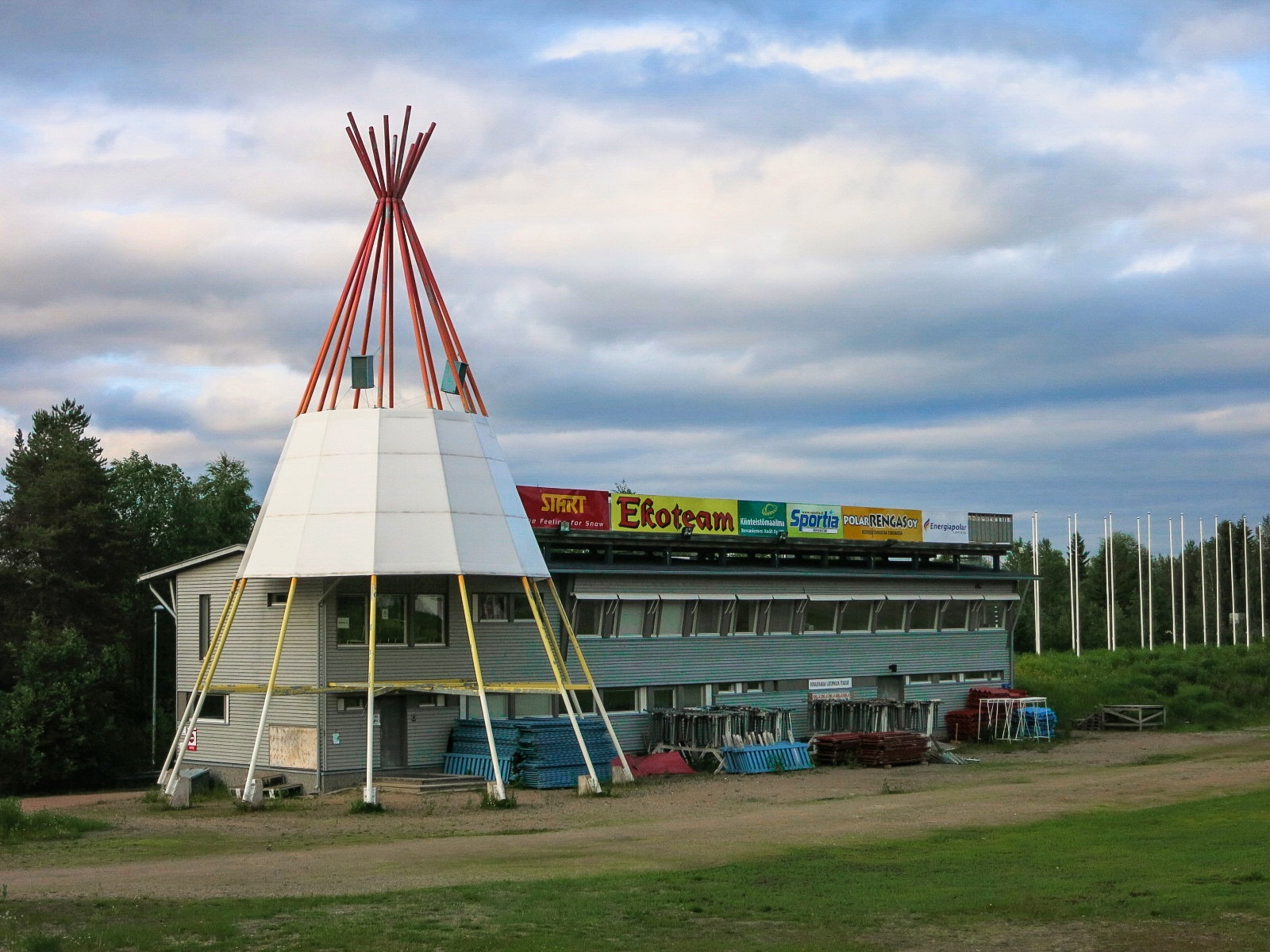 Administrative building in Ounasvaara Ski Resort (Rovaniemi, Lapland, Finland)